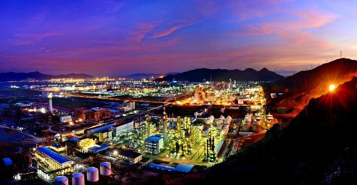 Panorama of the National Industry Zone Gaolan Port in Zhuhai, China.